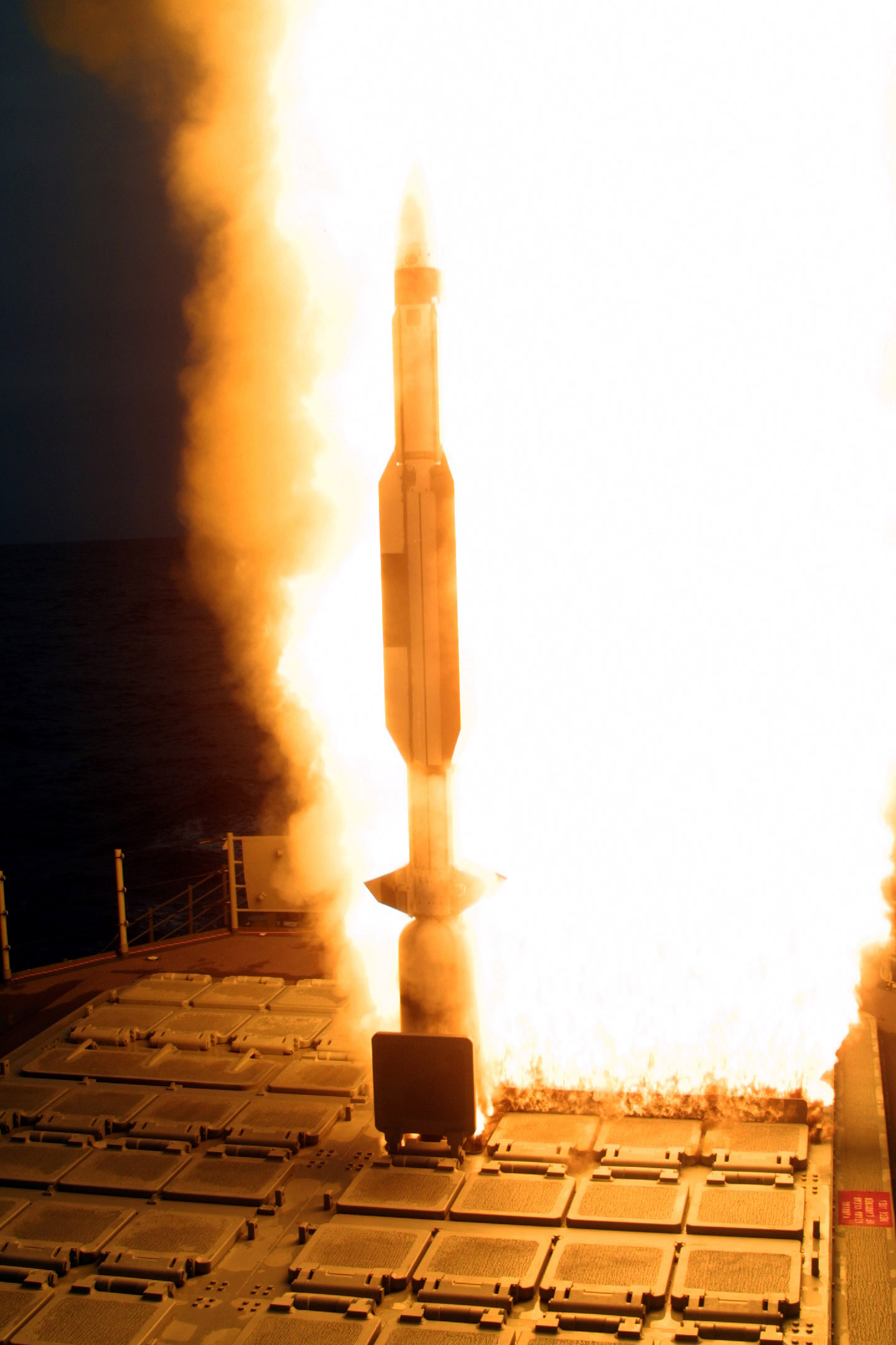 020125-N-0000X-001 At sea aboard USS Lake Erie (CG 70) Jan. 25, 2002 -- A Standard Missile 3 (SM-3) leaves the ships vertical launch system (VLS) during a combined Missile Defense Agency and U.S. Navy flight test, conducted in the continuing development of a Sea-Based Midcourse (SMD) Ballistic Missile Defense System (BMDS). Test involved the launch of a developmental Standard Missile 3 (SM-3) equipped with a kinetic warhead (KW) interceptor controlled from the Aegis Cruiser, and an Aries target missile launched from the Pacific Missile Range Facility (PMRF) on the island of Kauai, Hawaii. The SM-3 acquired, tracked, and diverted toward the target, successfully demonstrating the SM-3 fourth-stage Kinetic Warhead (KW) guidance, navigation and control. U.S. Navy Photo (RELEASED)